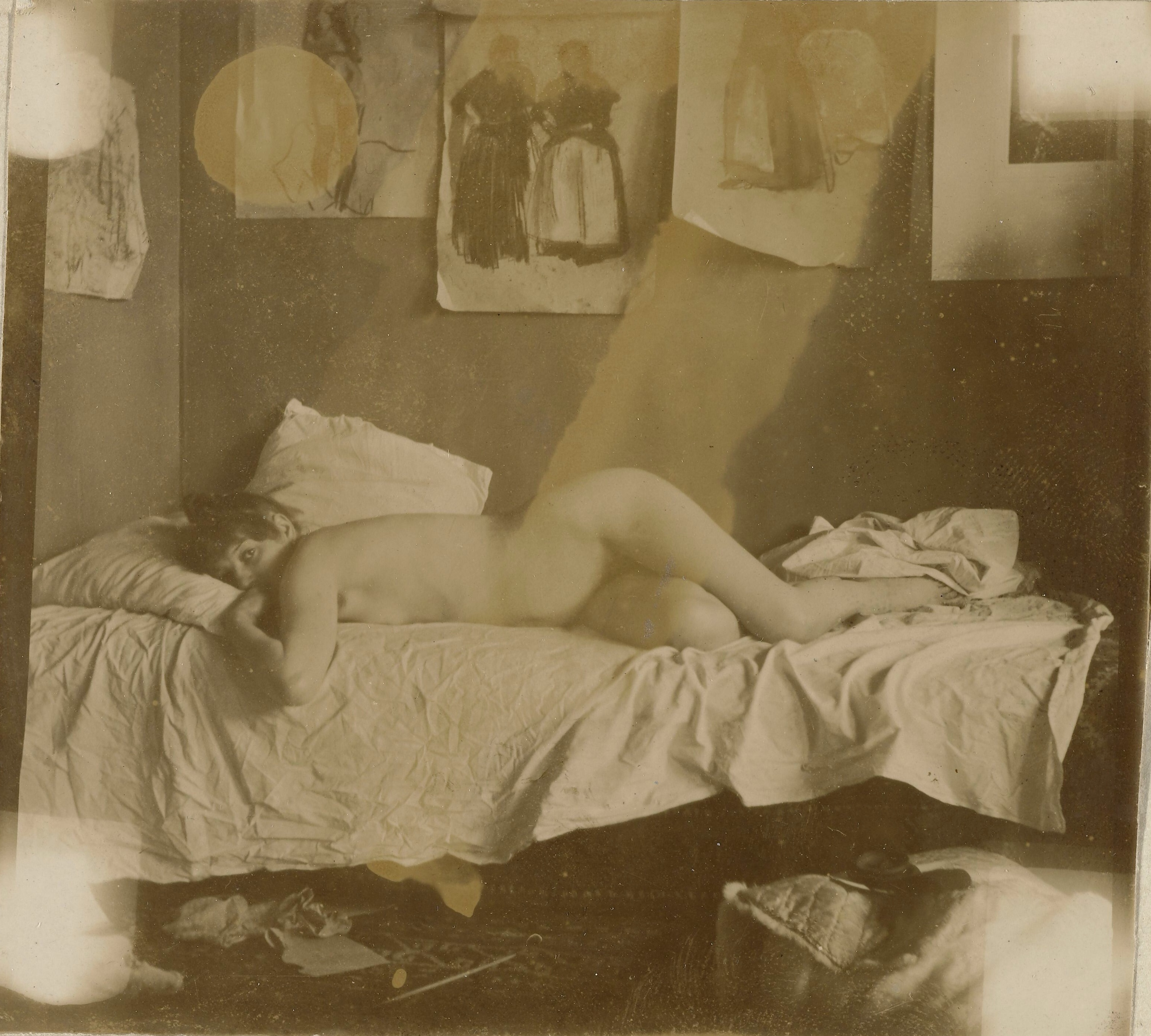 Marie Jordan naakt liggend op een bed